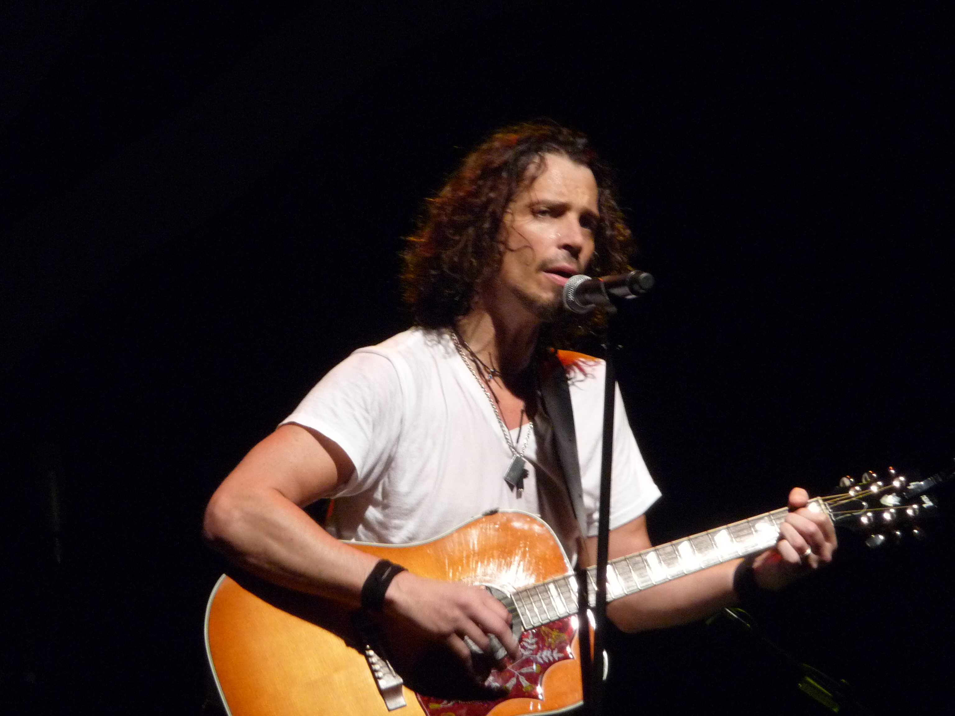 Chris Cornell live at 2009